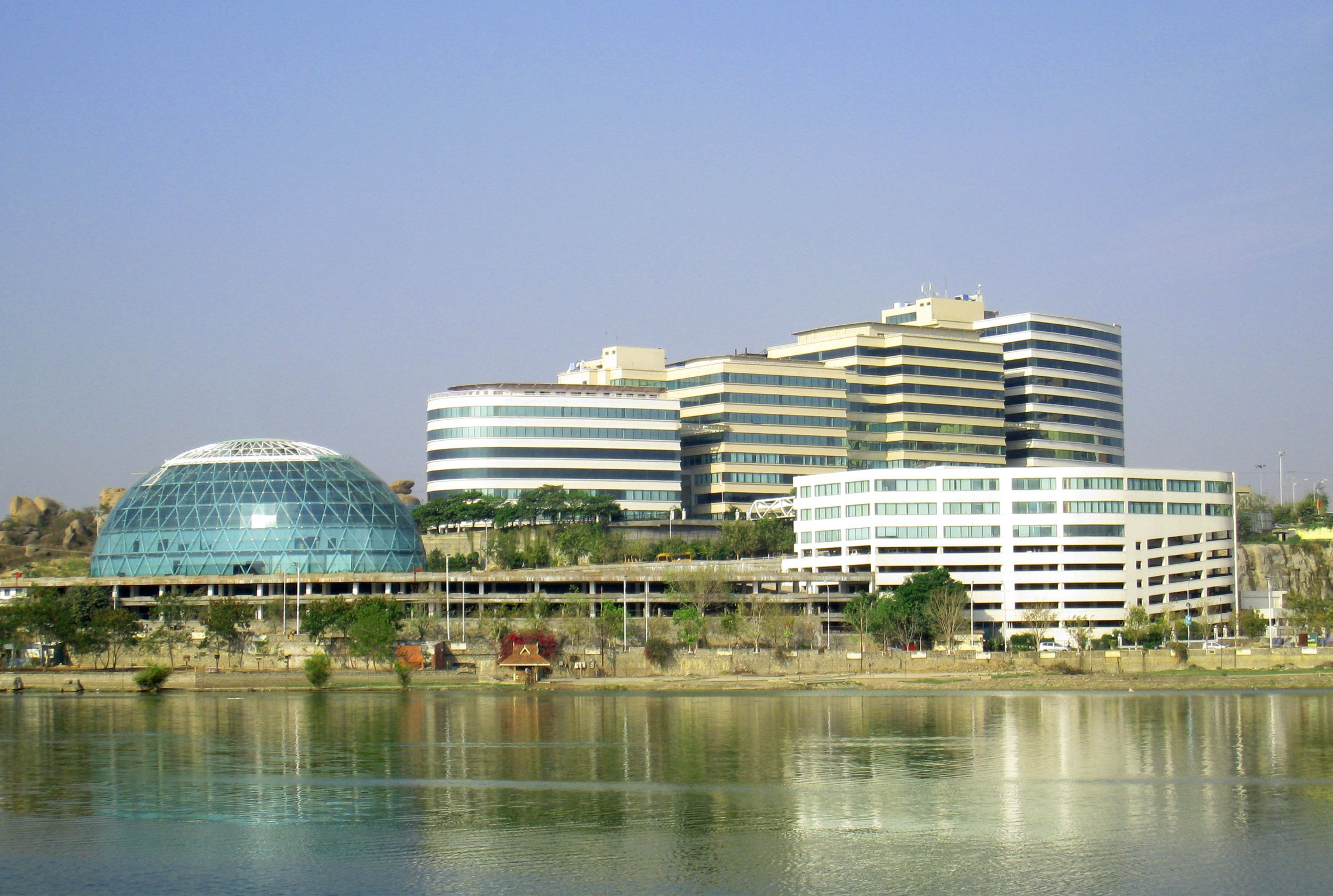 ilabs Centre, which includes the New OVAL office Building too.